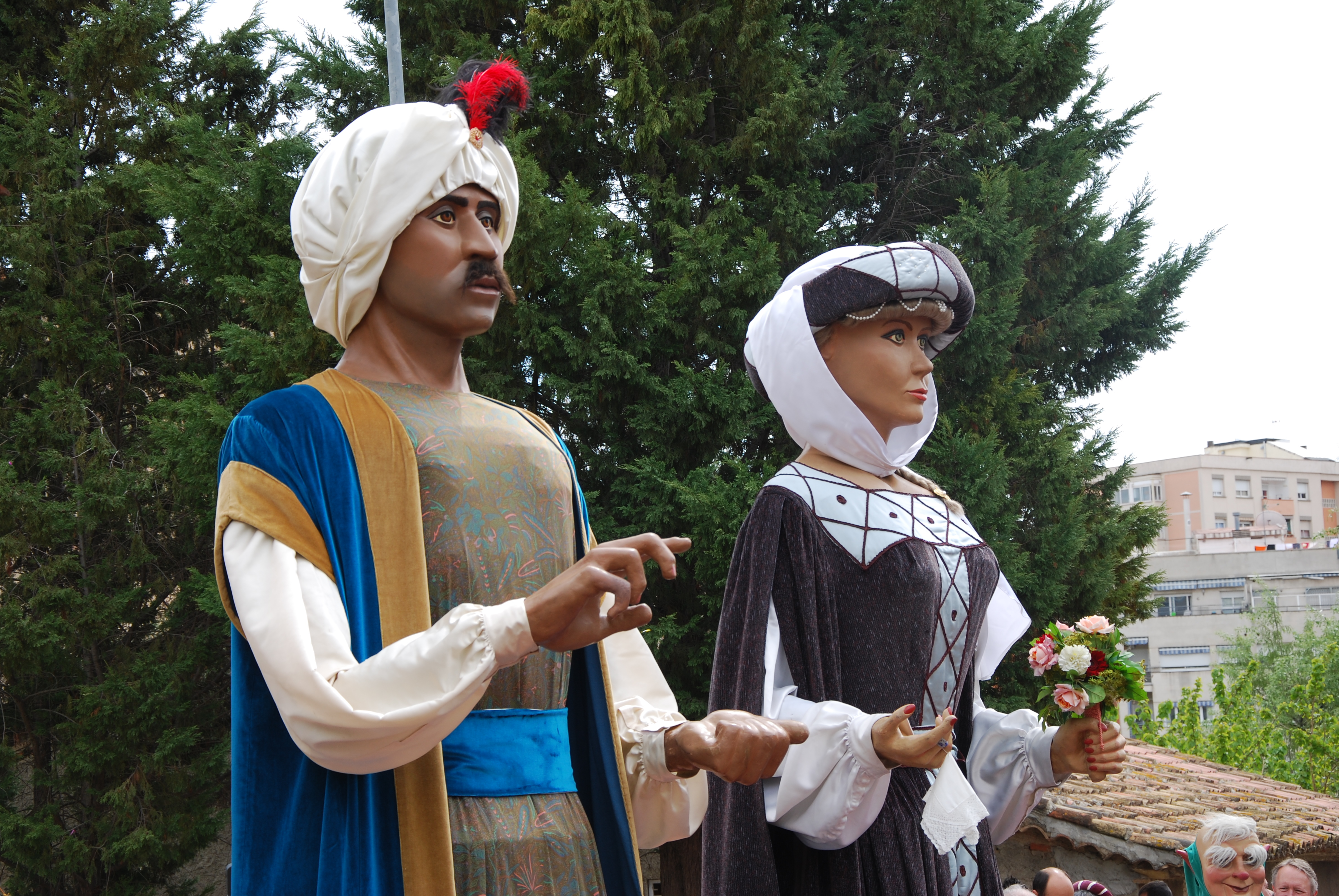 Els gegants "moros" de Badalona, en Ripal i na Brunel·la del Mar